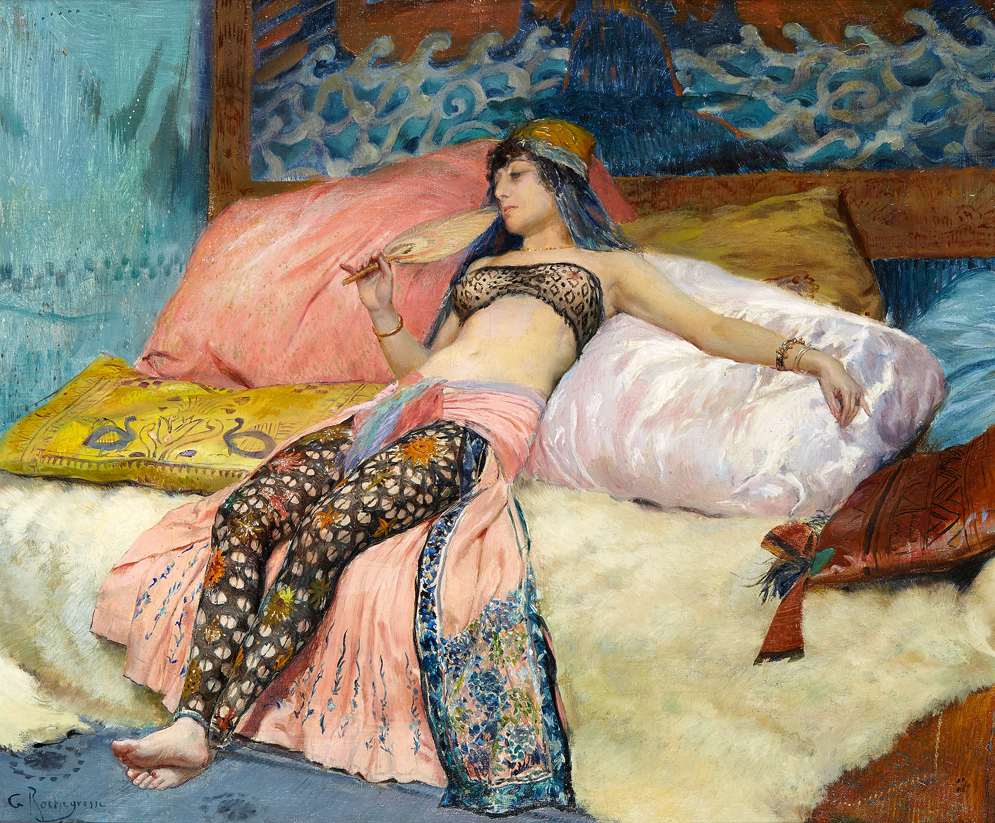 Portrait of Sarah Bernhardt (1844-1923)